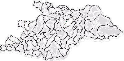 Limits of communes in Maramureş County